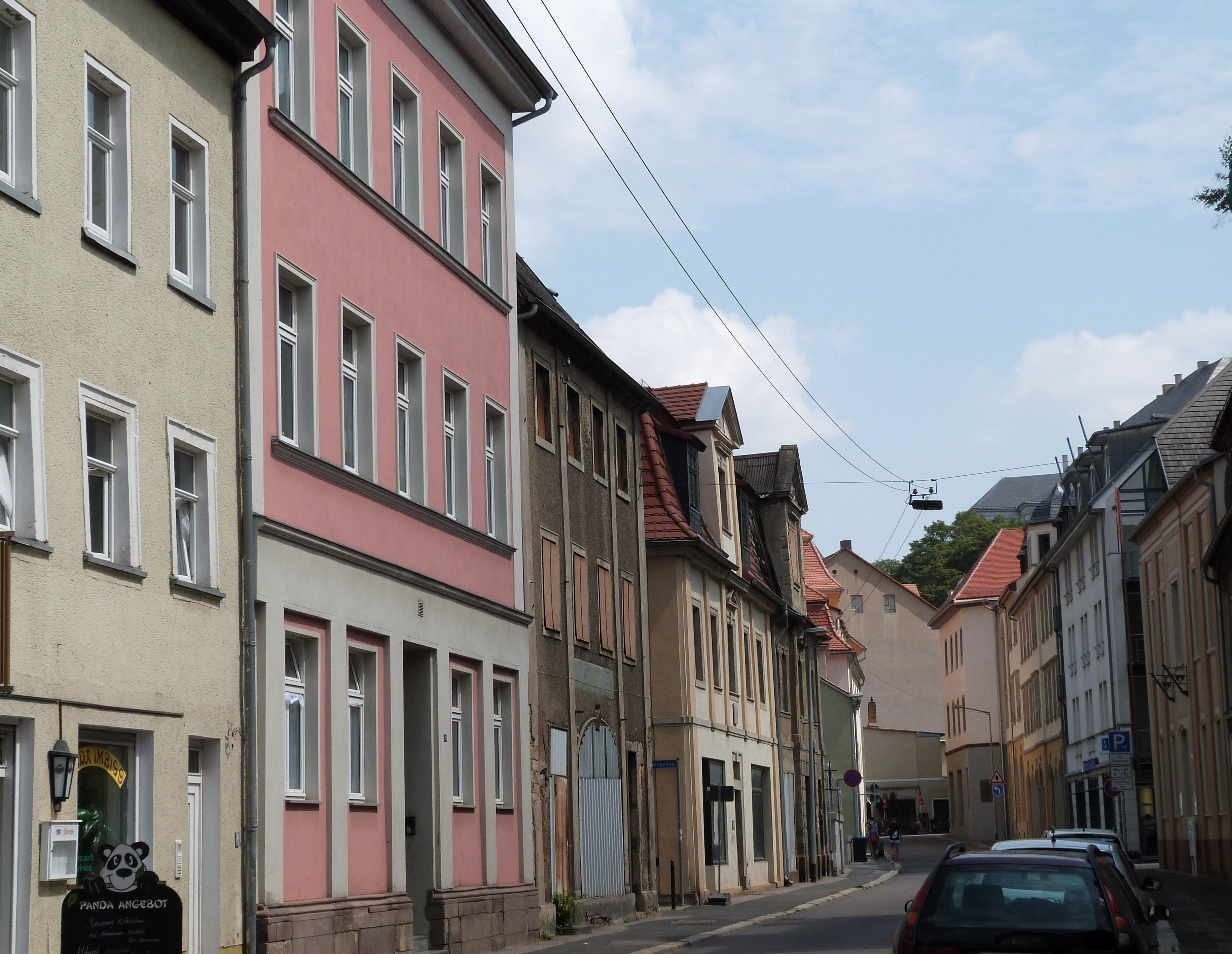 Street Klosterstraße in Weißenfels, Saxony-Anhalt